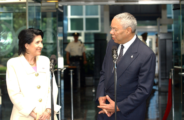 Salome Zourabichvili and Colin Powell.